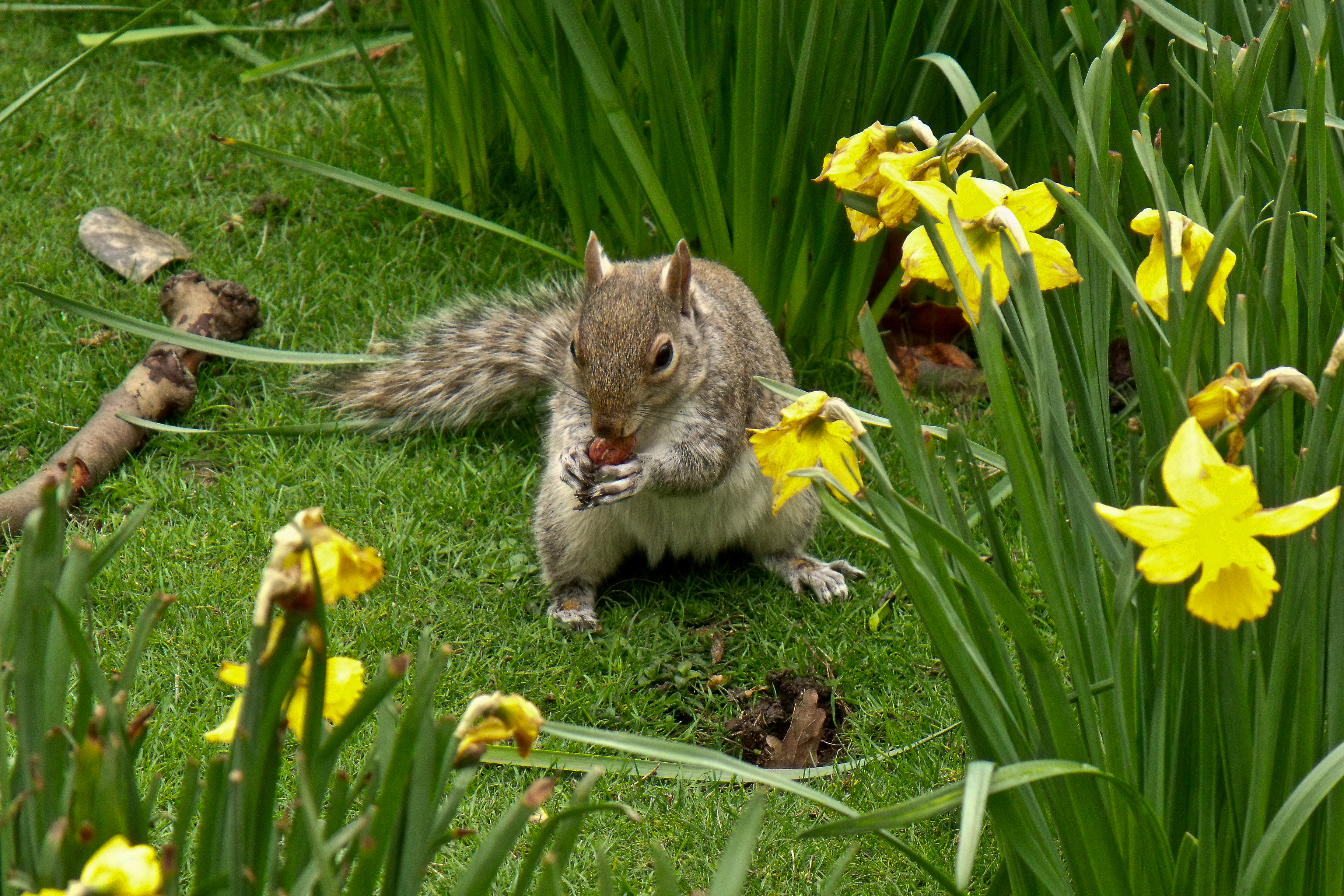 An eastern gray squirrel (or grey squirrel) eating a nut at St. James' Park, London, England. The squirrel standing on short grass amongst daffodils.